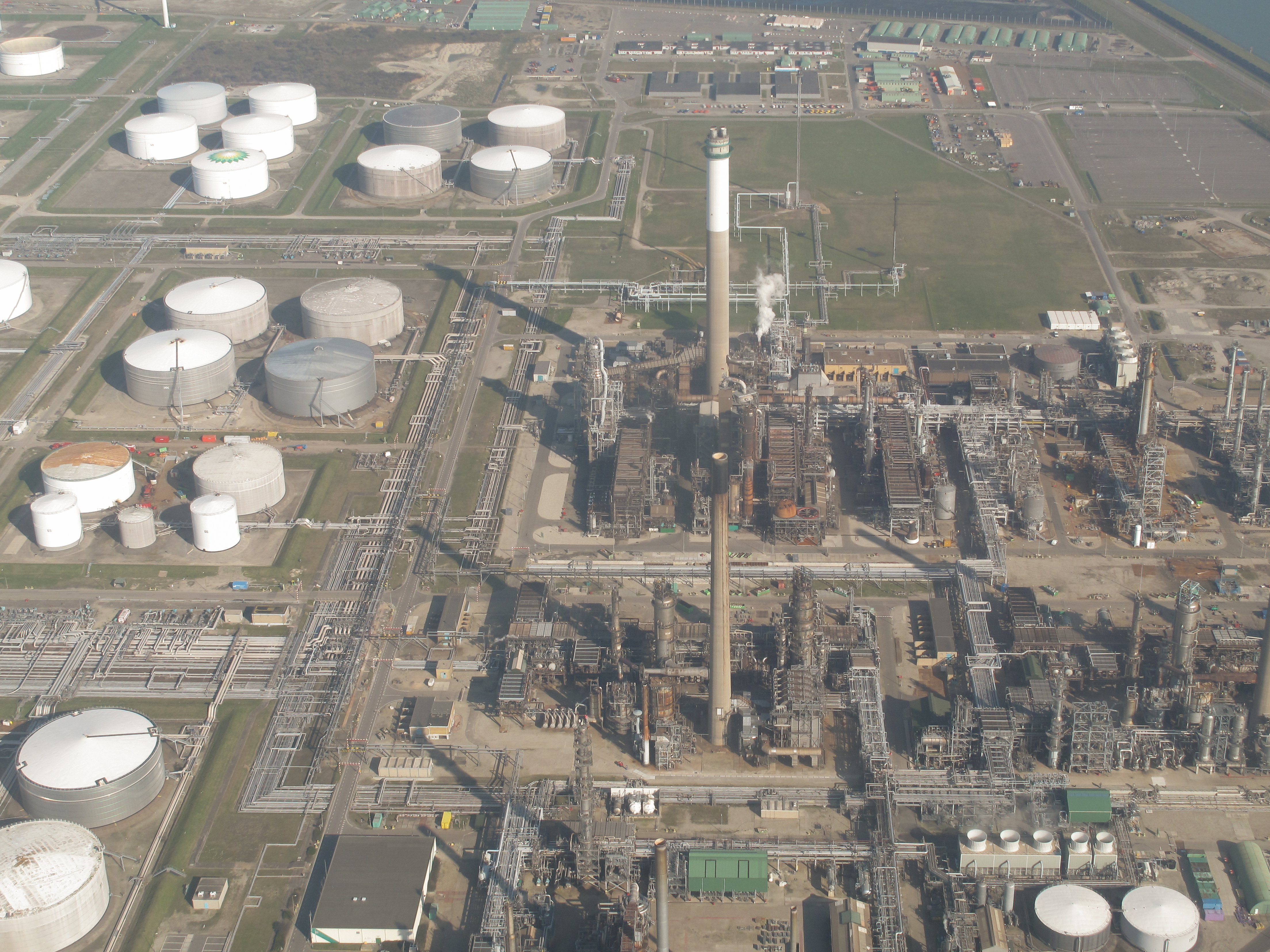 Europoort, oil refinery (British Petroleum) near de Vierde Petroleumhaven